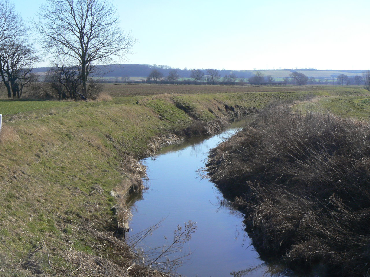 Fairham Brook Here seen draining out of Bunny Moor and about to run under the railway line.